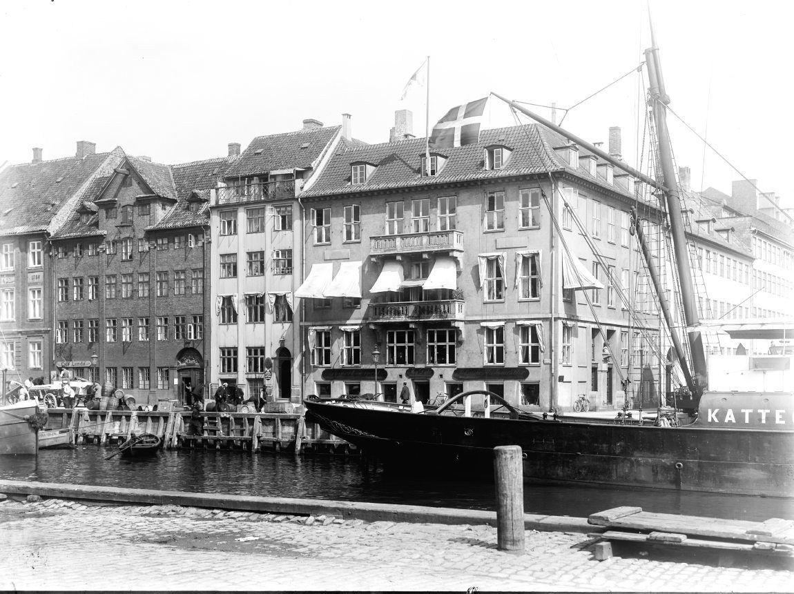 Headquarters of Bjergningsselskabet Svitzer at the corner of Nyhavn and Kvæsthusgade in Copenhagen, Denmark.